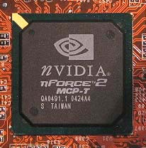 Southbridge MCP-T of nForce2 Ultra 400